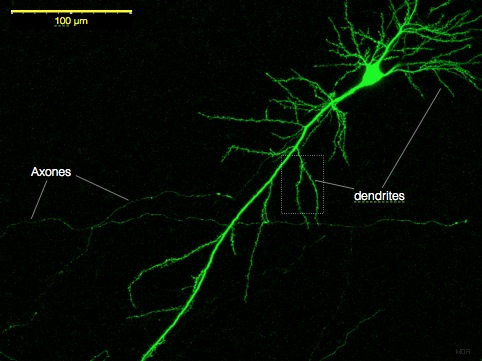 Pyramidal neuron of a rat hippocampal organic culture transfected with eGFP